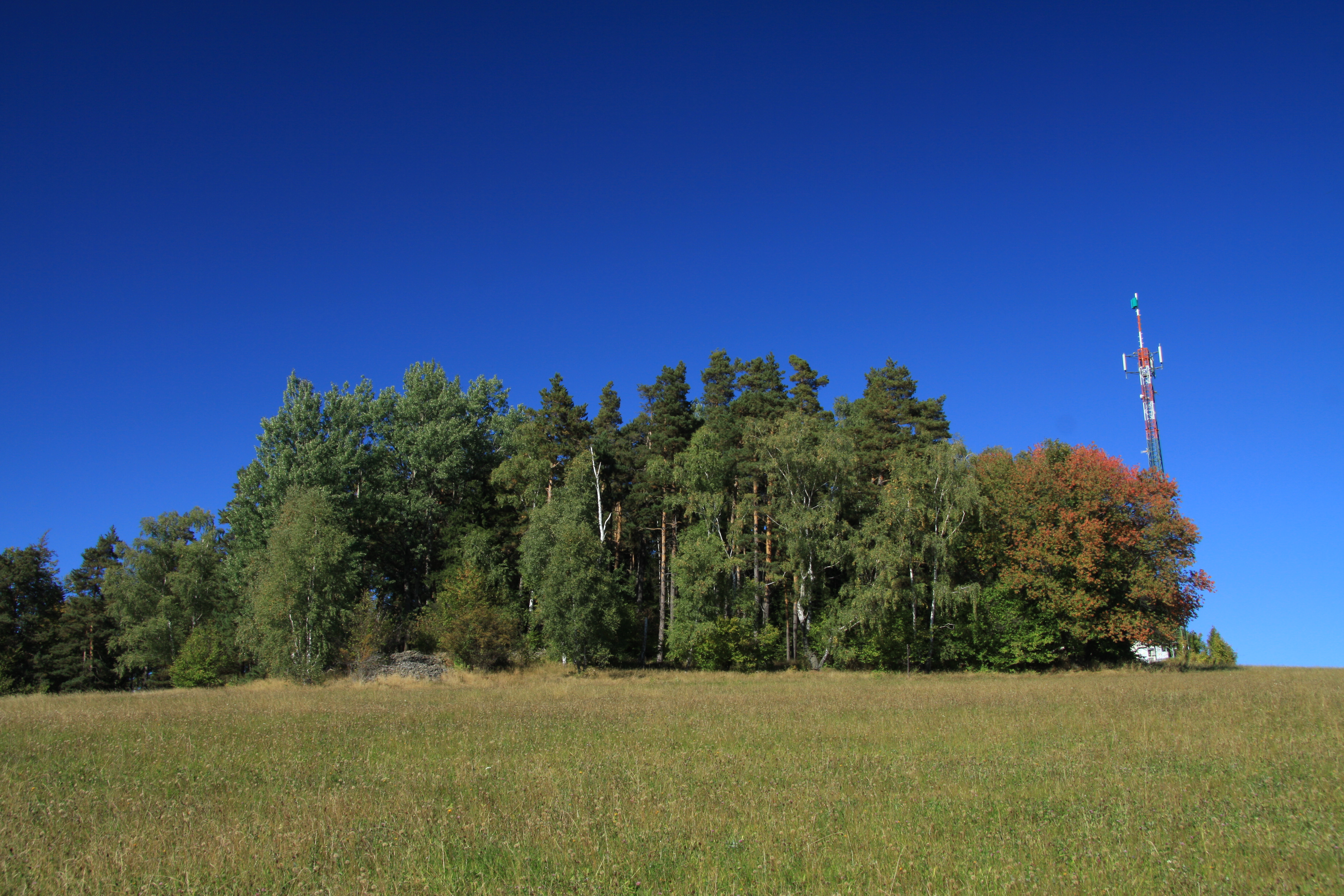 Natural monument Stádla near Prachatice in Prachatice District, Czech Republic Project: Chráněná území.